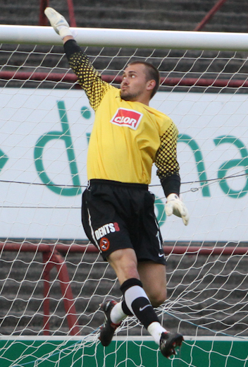 Bohemians V Dundee United (33 of 34)